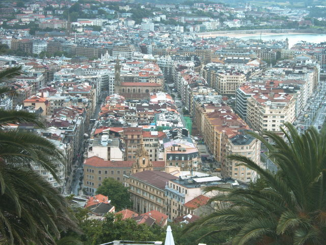 Gros neighbourhood in San Sebastian, seen from the Ulia mount